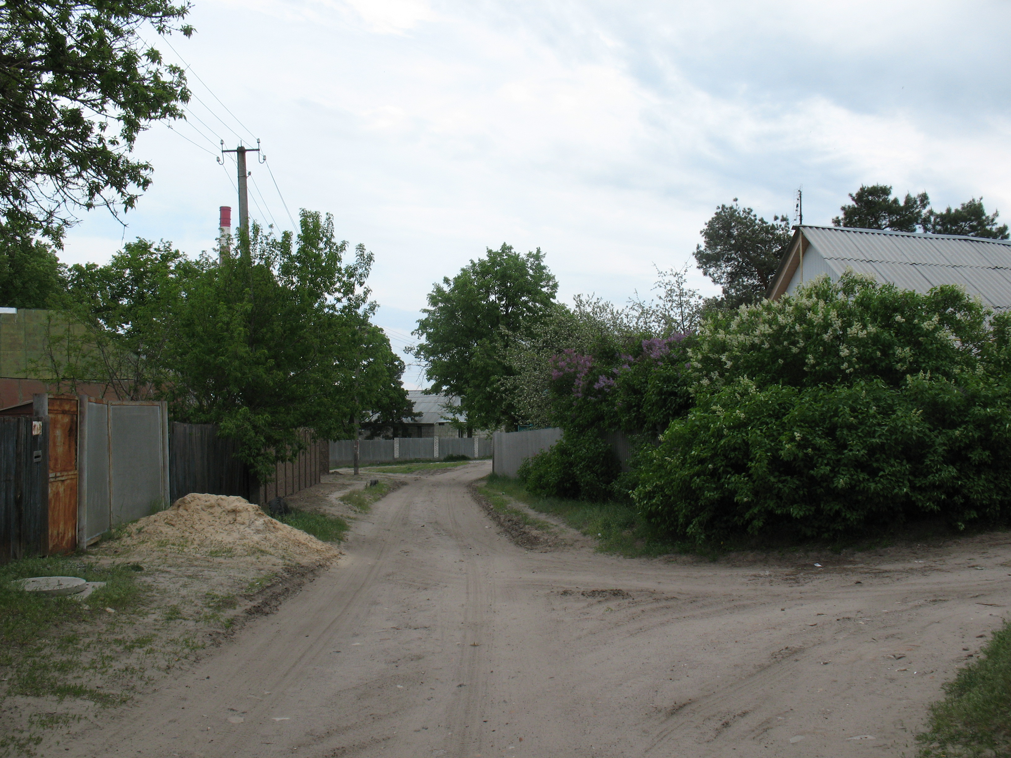 Podvorki village in Kharkov Oblast. Syringa flovers.